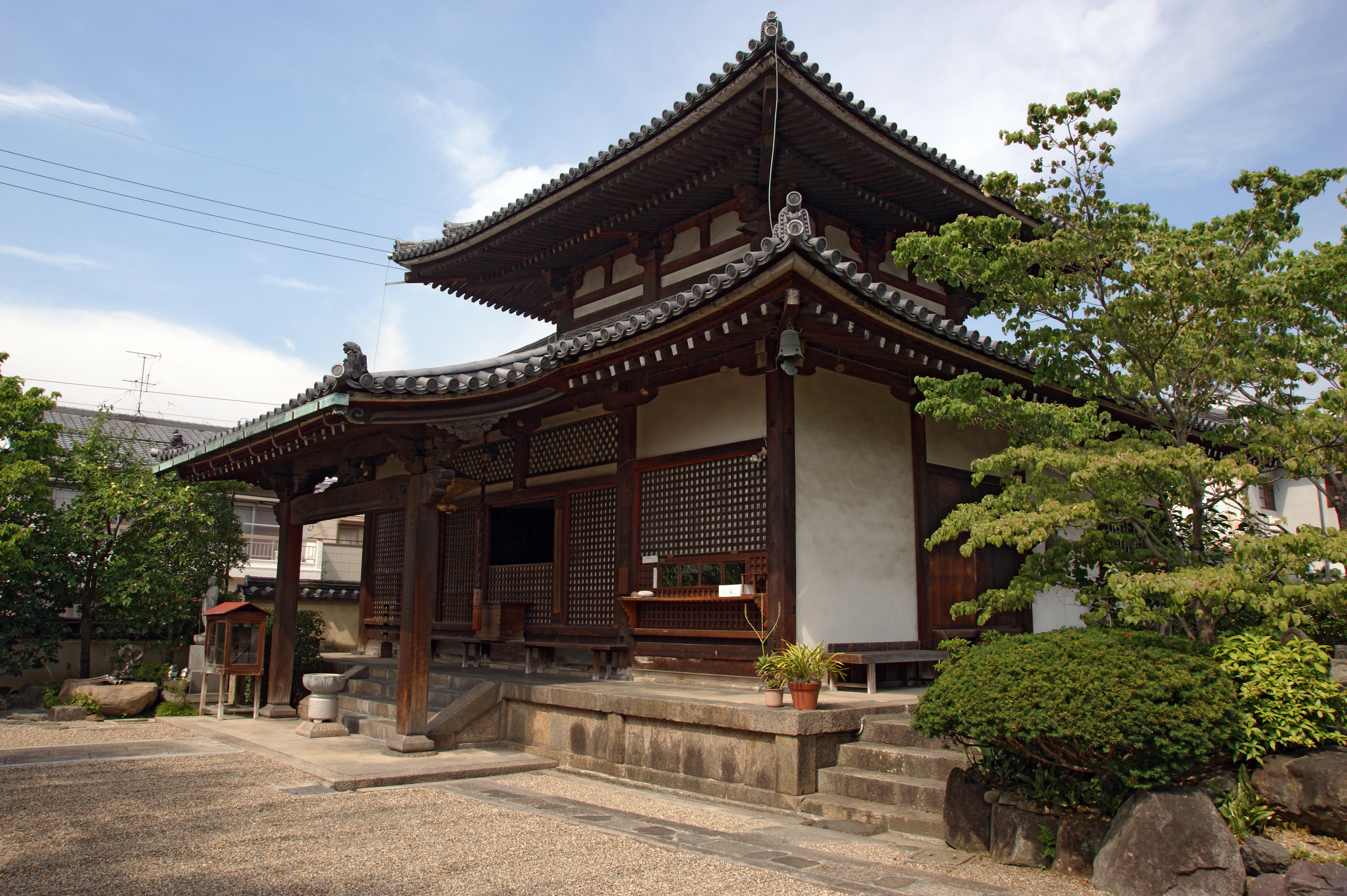 Fukuchiin in Nara, Nara prefecture, Japan